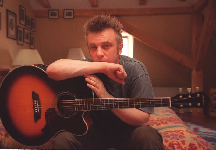 Andrius Mamontovas in Shakespeare hotel, Vilnius after presentation of his O, Meile! album (2002)